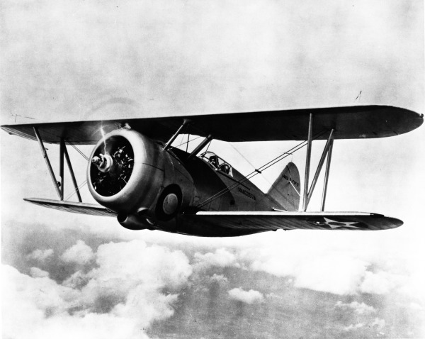 PictionID:40961921 - Catalog:Array - Title:Array - Filename:16_000128 Grumman F3F-3 1463 Anacostia.tif - - - Ray Wagner was Archivist at the San Diego Air and Space Museum for several years and is an author of several books on aviation --- ---Please Tag these images so that the information can be permanently stored with the digital file.---Repository: San Diego Air and Space Museum